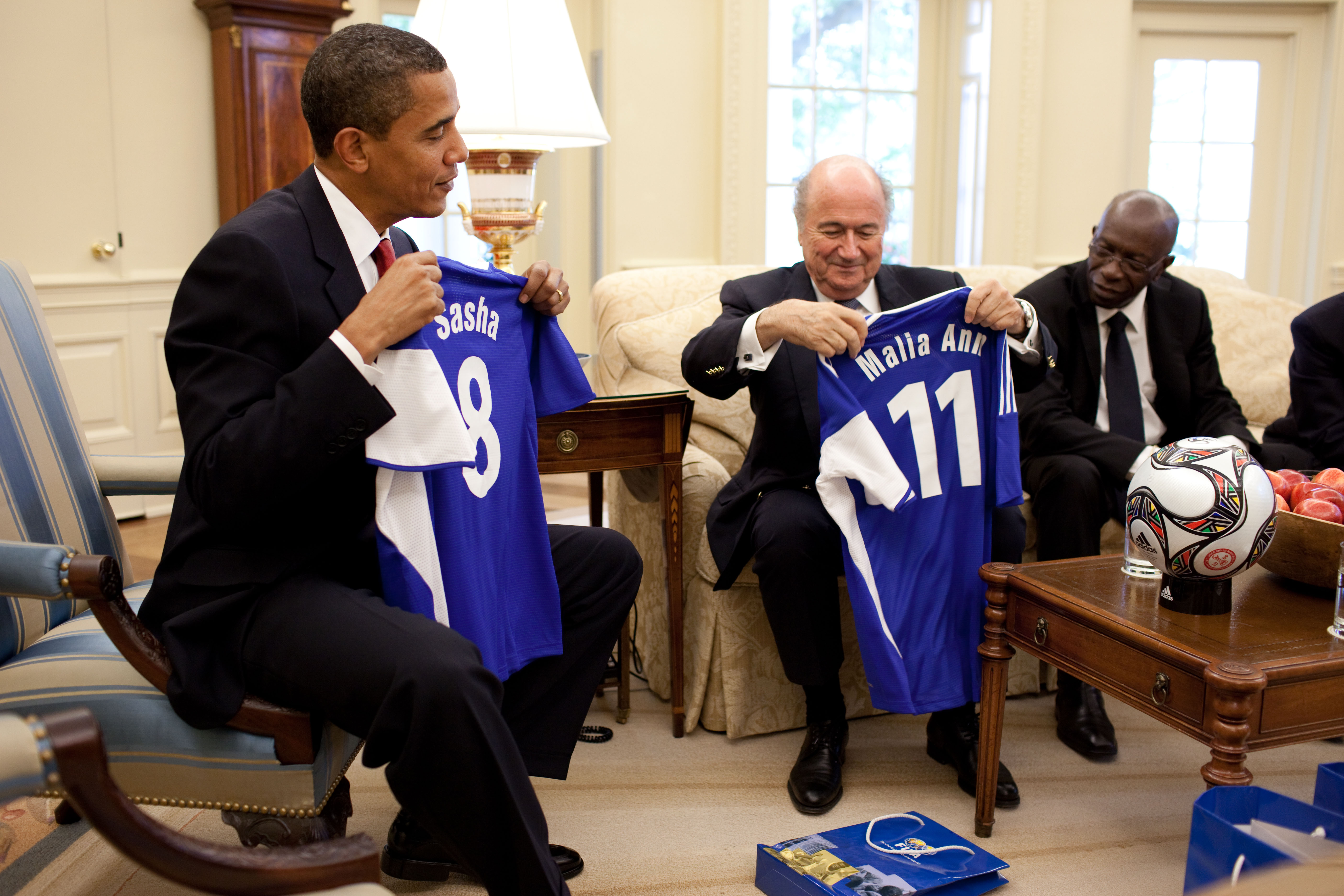 President Barack Obama is presented with soccer jerseys for his daughters, Sasha and Malia, by FIFA President Sepp Blatter and Jack Warner during a meeting in the Oval Office on July 27, 2009